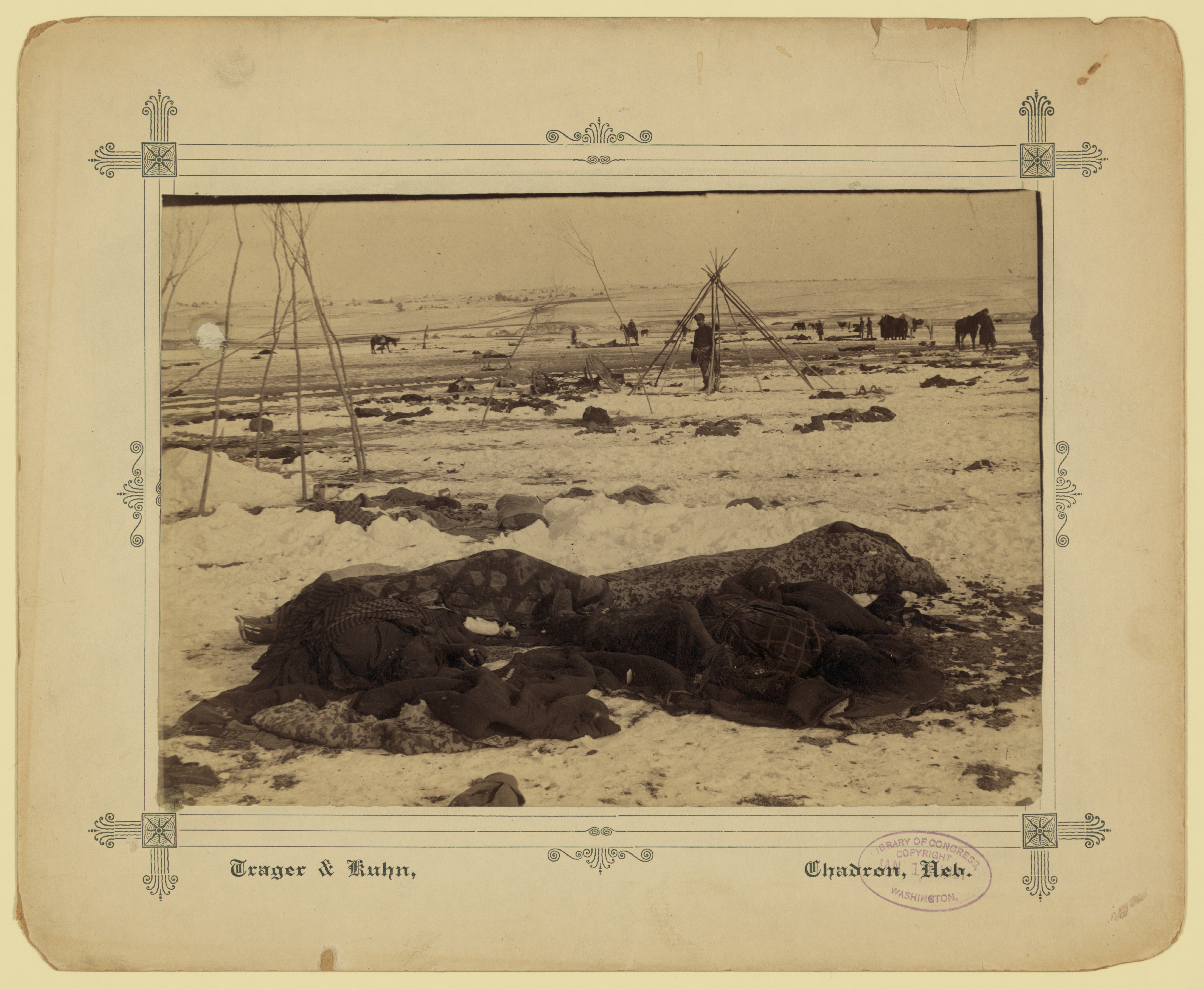 Bibliographic caption: "Big Foot's camp after Battle of Wounded Knee; U.S. soldiers amid scattered debris of camp" Contains at least 3 bodies in foreground, possibly four. 1 photographic print : albumen ; 9 x 11 in. (Updated description): Big Foot's camp three weeks after the Wounded Knee Massacre (Dec. 29, 1890), with bodies of several Lakota Sioŭ people wrapped in blankets in the foreground and U.S. soldiers in the background